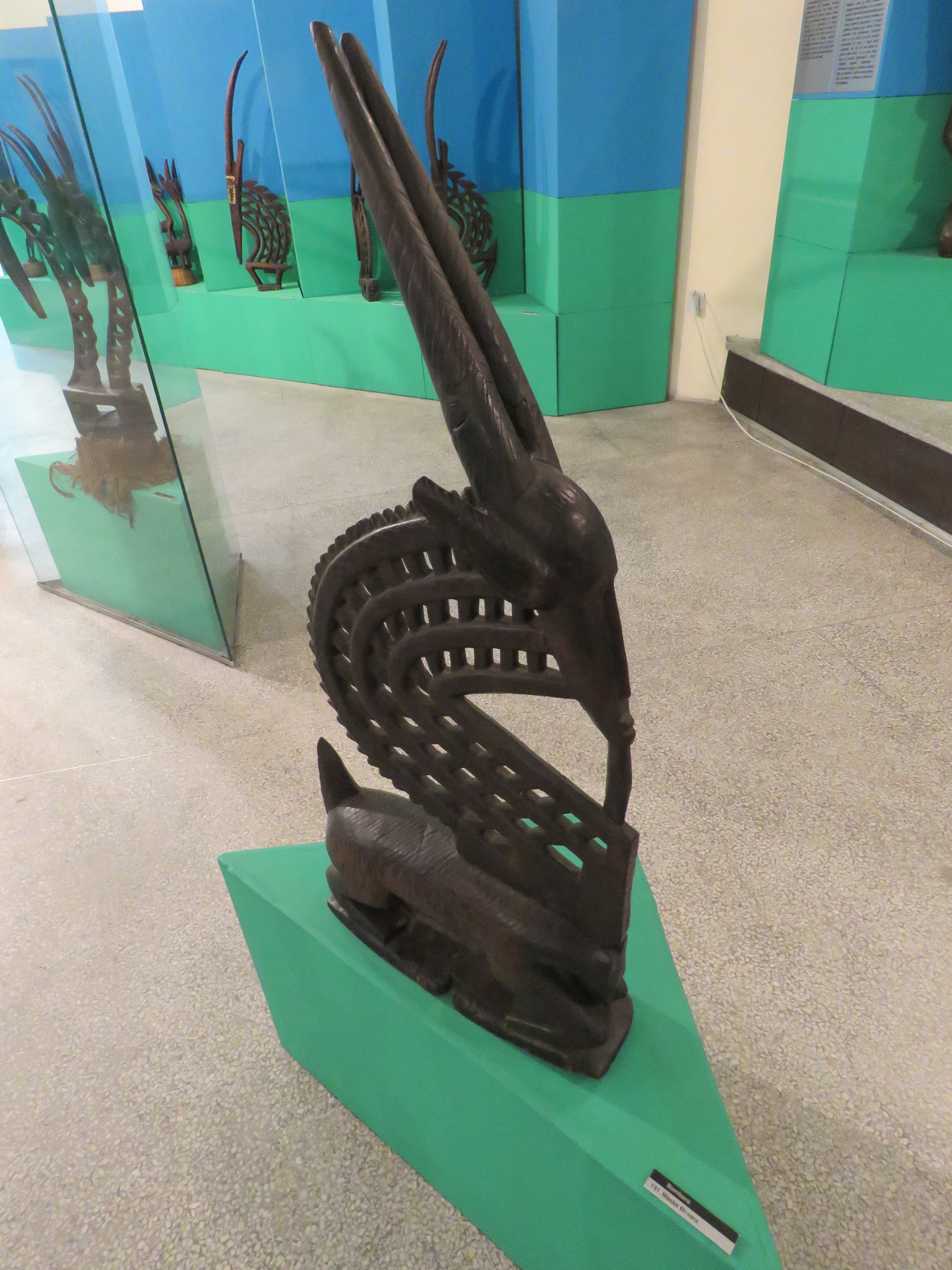 Chiwara figure, Bambara people, Mali